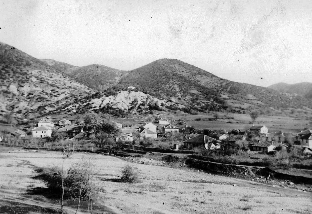 Gradec (Valandovo), 1931 This media file is produced by Wikipedian in Residence in Category:Wikipedian in Residence at DARM in 2016.